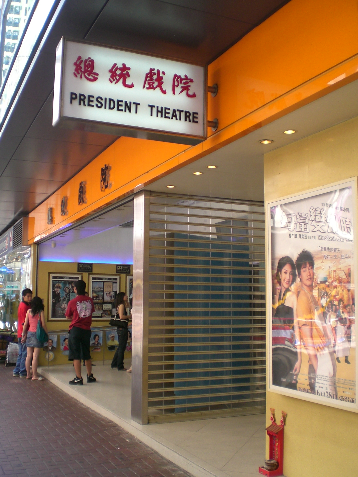 香港電影《每當變幻時》 香港戲院, 總統戲院 Author= RoxRox